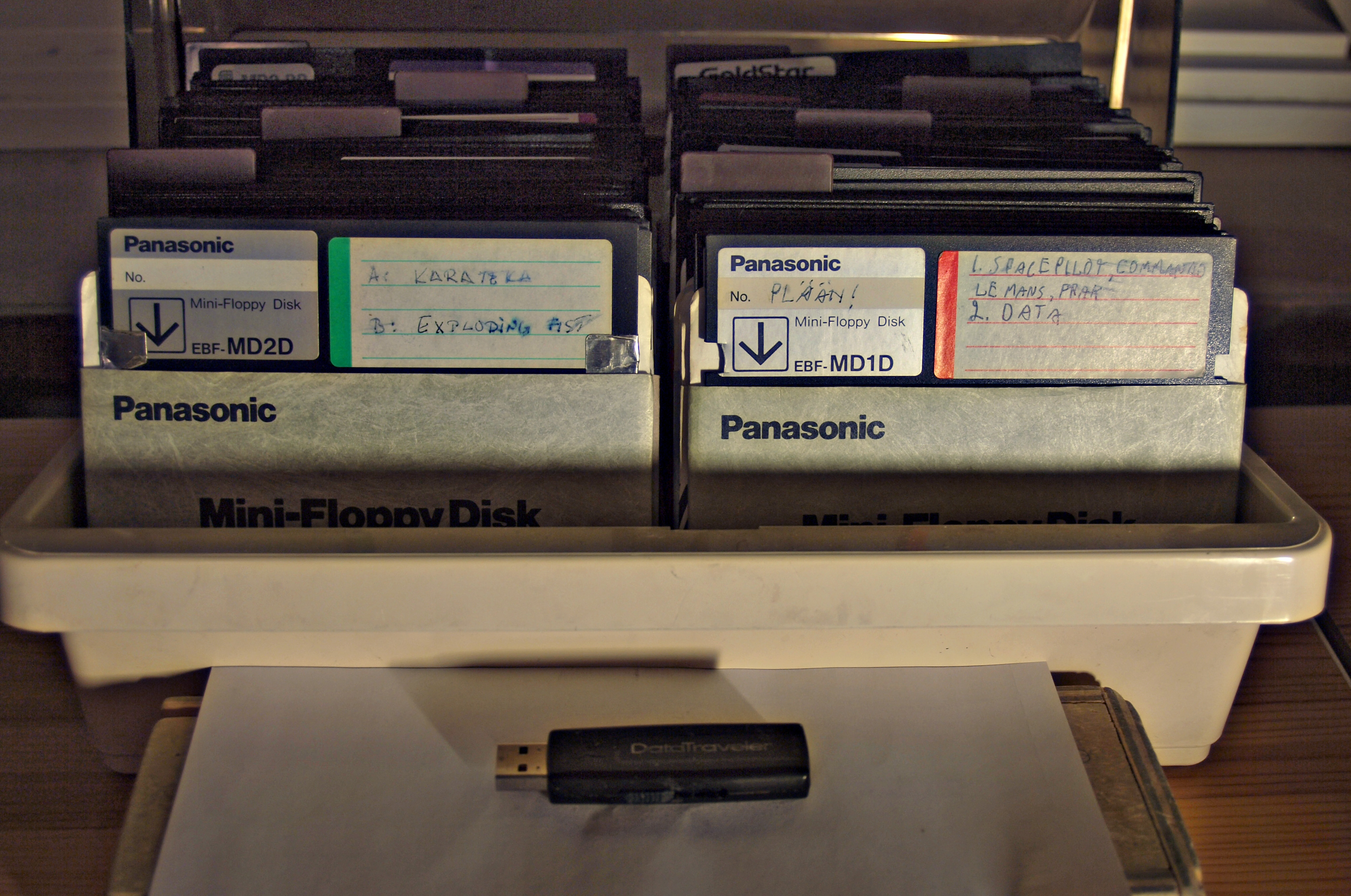 A box of about 80 5.25" floppy disks together with a USB memory stick capable of holding over 130 times as much data as the whole box of disks put together.